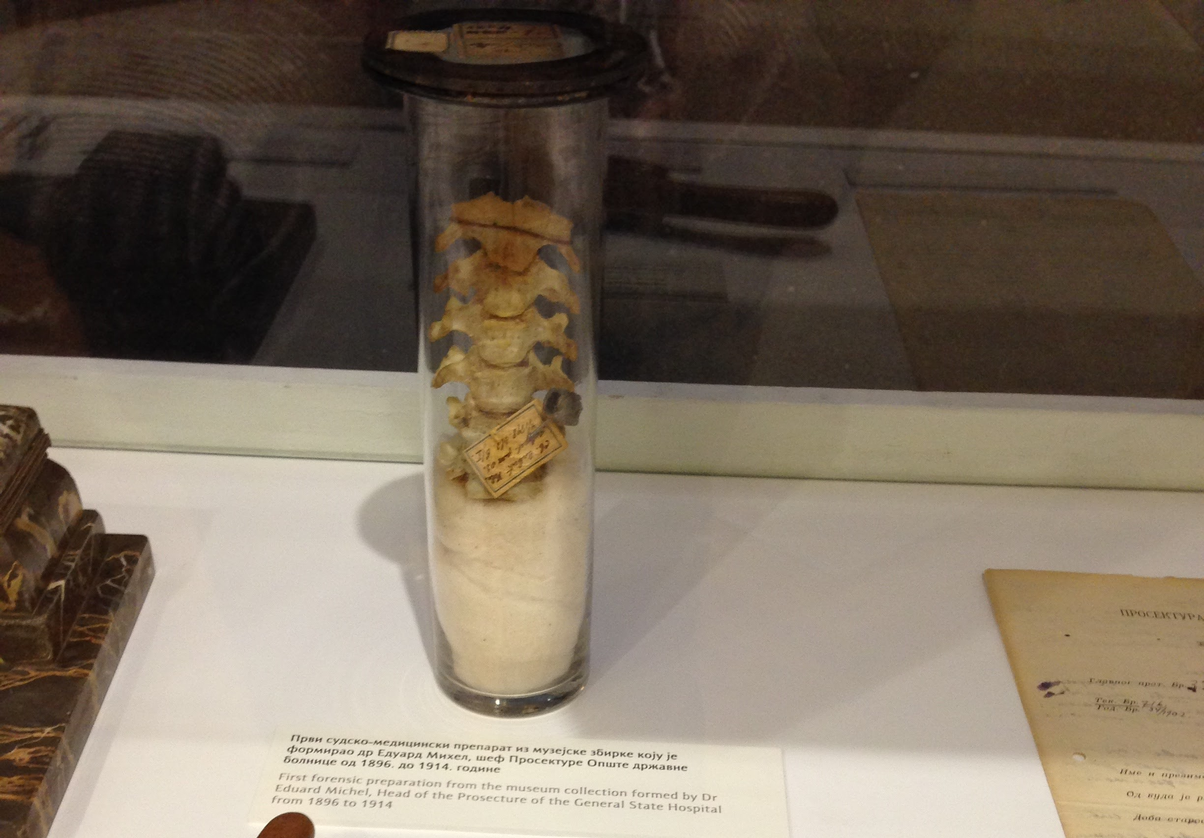 First Forensic preparationfrom the museum collection formed by Dr Eduard Michel (1896) Srpski (latinica): Prvi sudskomedicinski preparat iz muzejske zbirke koju je formirao dr Eduard Mihel šef prosekture Opšte državne bolnice u Baogradu od 1896-1914.